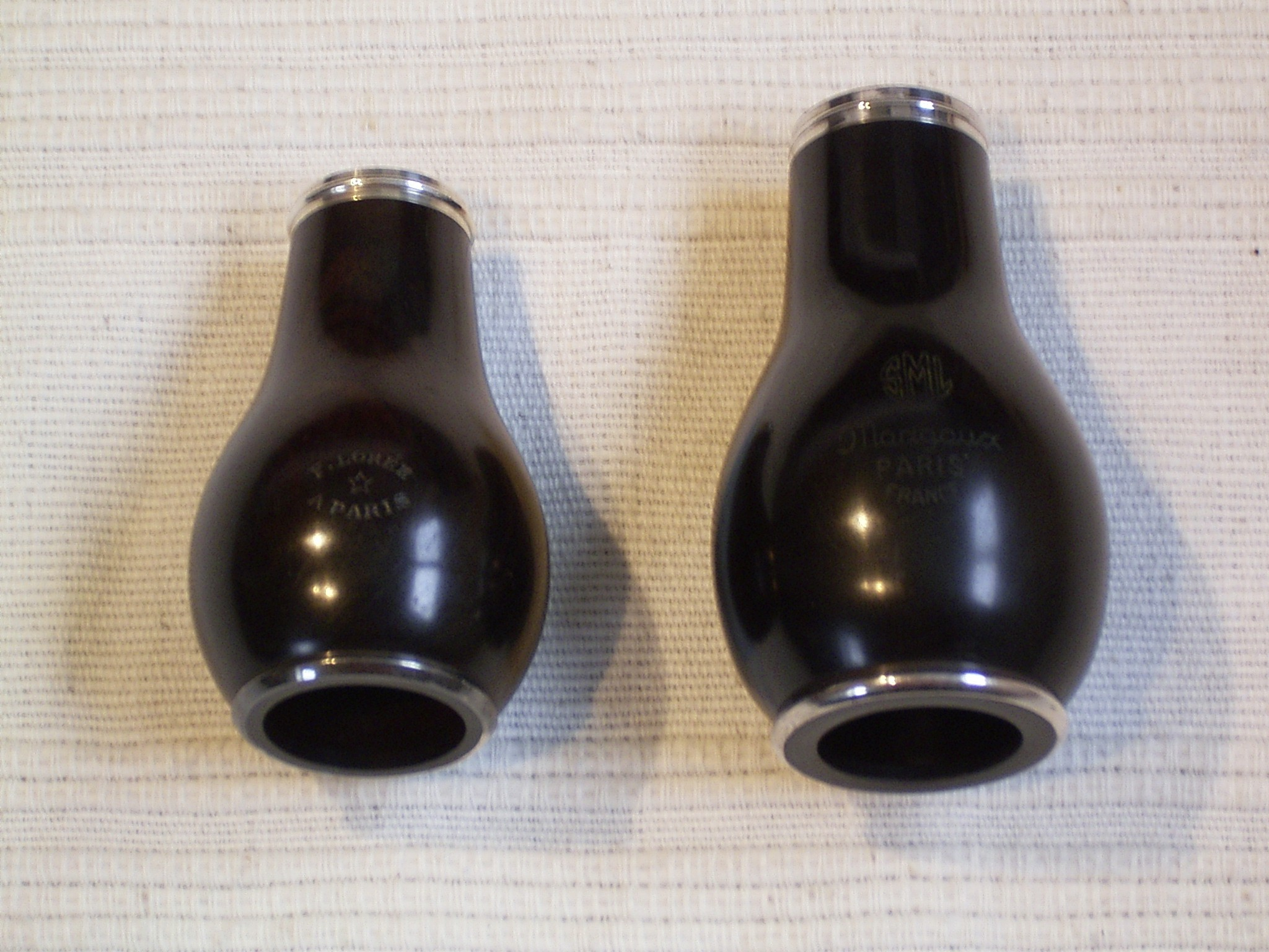 Pear-shaped bell